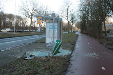 Fireworks vandalism of a bus stop to the President Wilsonweg in Rotterdam-Ommoord.